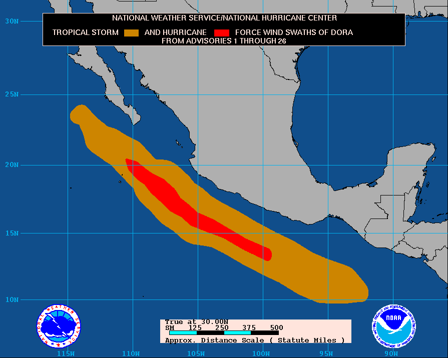 Total area estimated to have been under the tropical storm and hurricane wind fields of Dora in 2011.